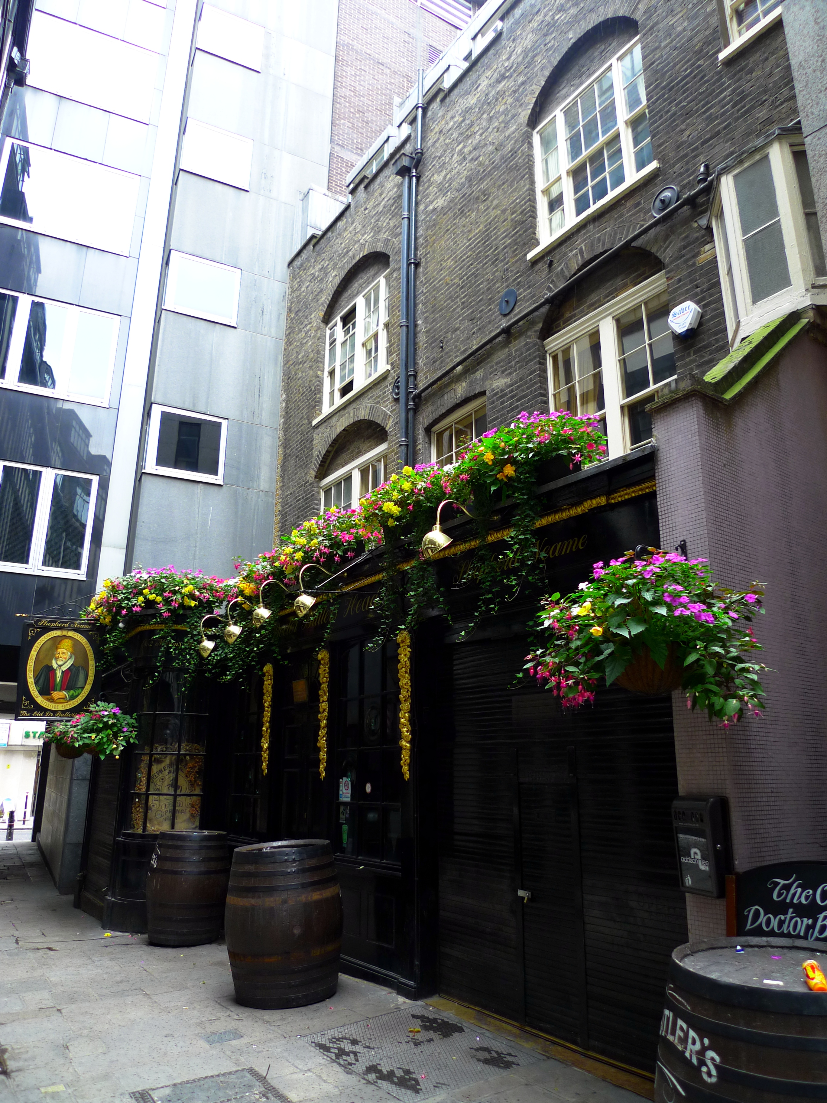 A very easy to miss, but longstanding, pub in the City. There used to be a few pubs down this little alleyway. This photo is looking east towards Coleman St. (View from other side.) Address: 2 Masons Avenue, off Coleman Street. Former Name(s): The Doctor Butler's Head Tavern; The Butler's Head. Owner: Shepherd Neame (website). Links: Randomness Guide to London Fancyapint Beer in the Evening Dead Pubs (history)